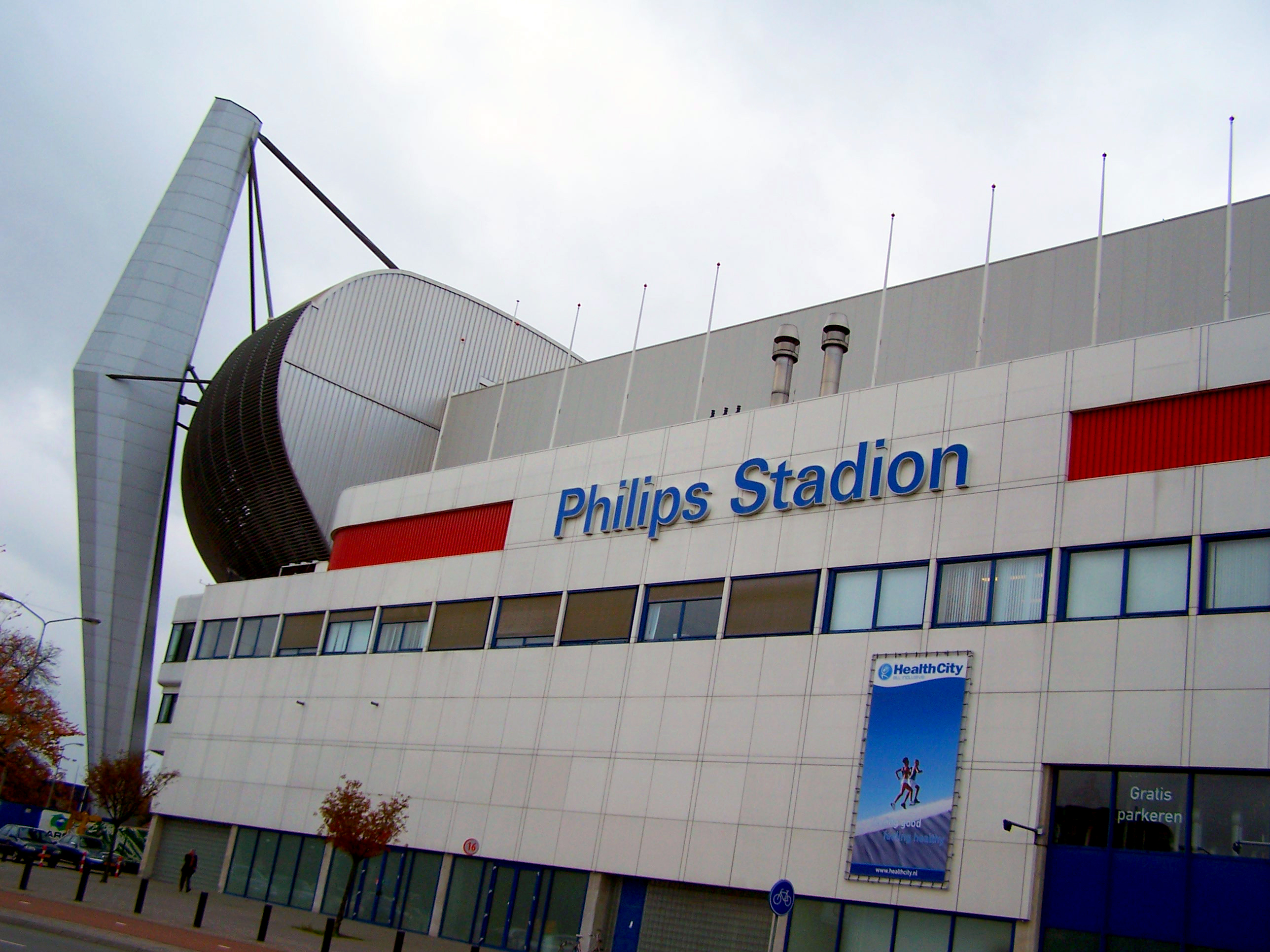 Philps